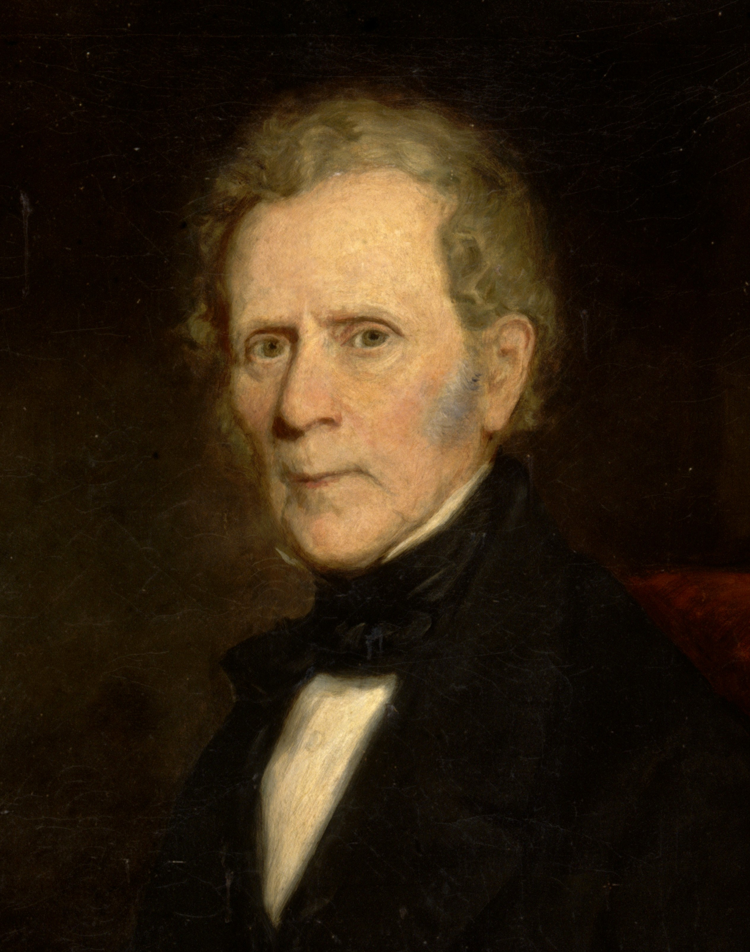 Sir Alexander Crichton. Oil painting.